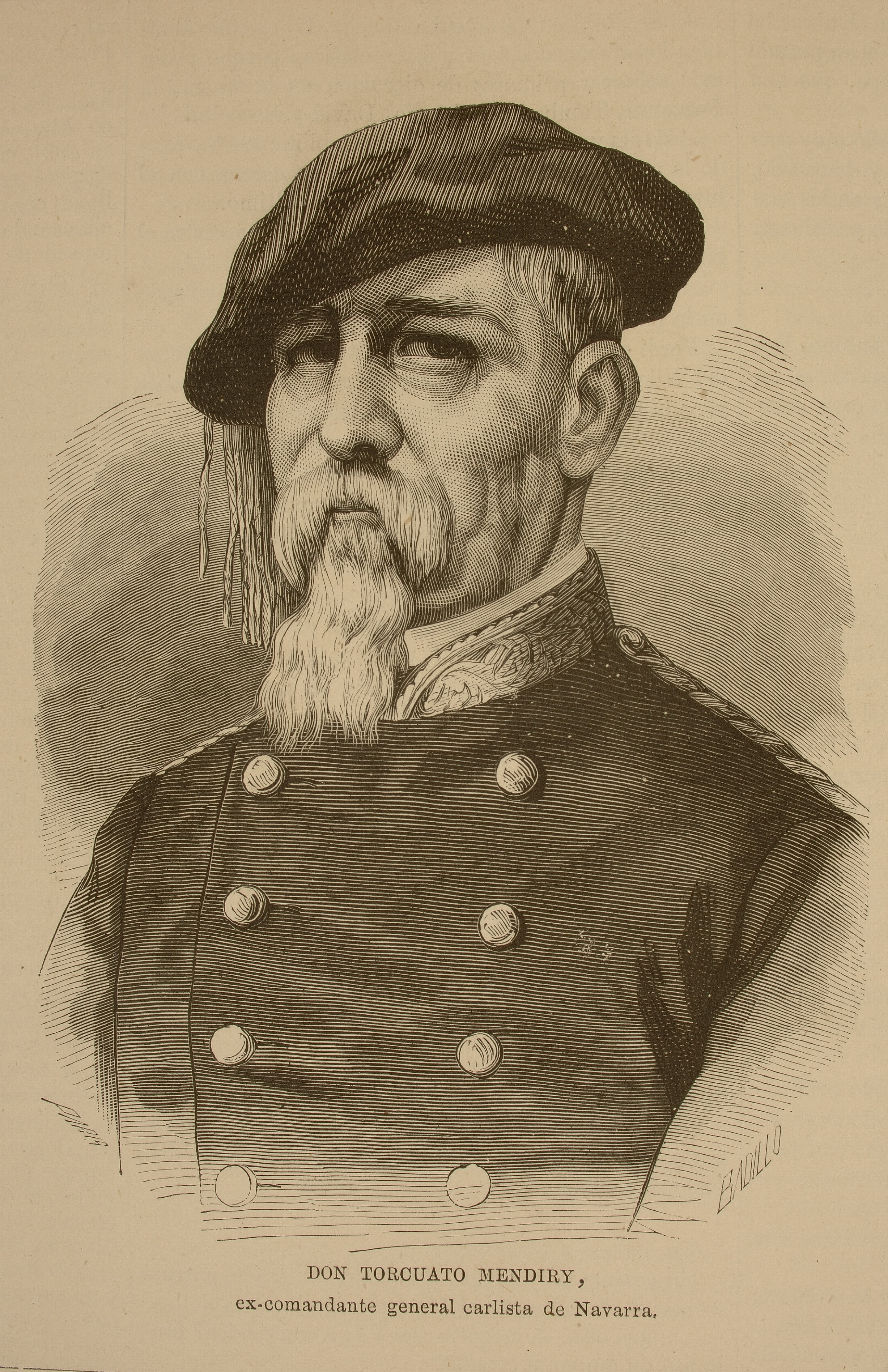 Torcuato Mendiri